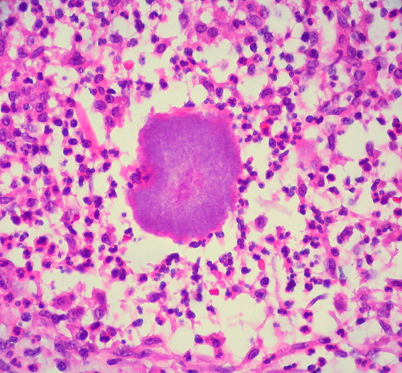 51-year-old male, biopsied elsewhere some years back. The diagnosis was "mycetoma," and apparently the clinician treated him with antifungals, obviously with no success. Special stains are pending, but I think we're dealing with an actinomycotic mycetoma rather than a eumycotic one. The distinction is important, as the actinomycotic ones often respond to aggressive antimicrobial therapy, while the fungal ones do not. Pathological and histological images courtesy of Ed Uthman at flickr.